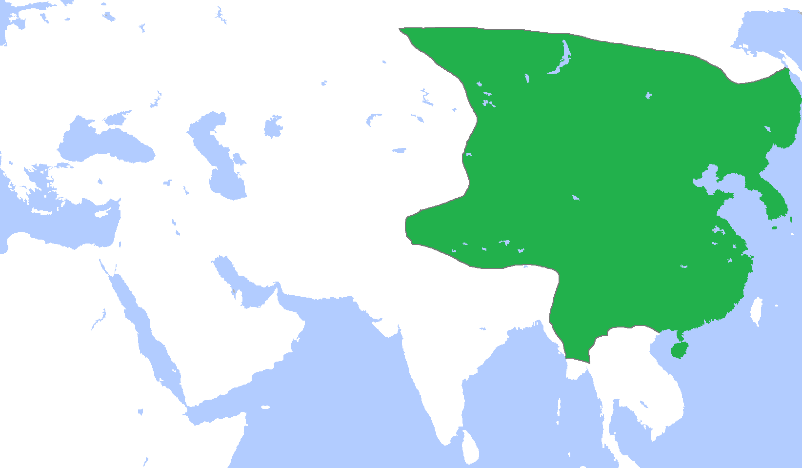 Map of the Yuan Dynasty c. 1300 — a succeeding eastern subdivision of the Mongol Empire. (Partially based on Atlas of World History (2007) - The World 1200-1300, map)